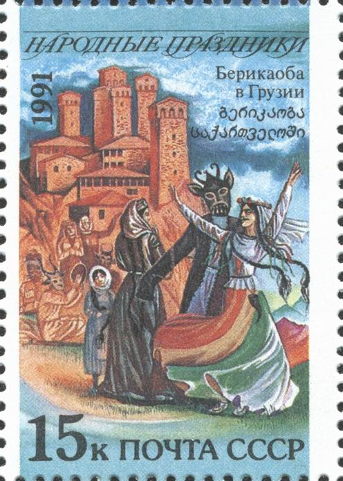 A USSR stamp